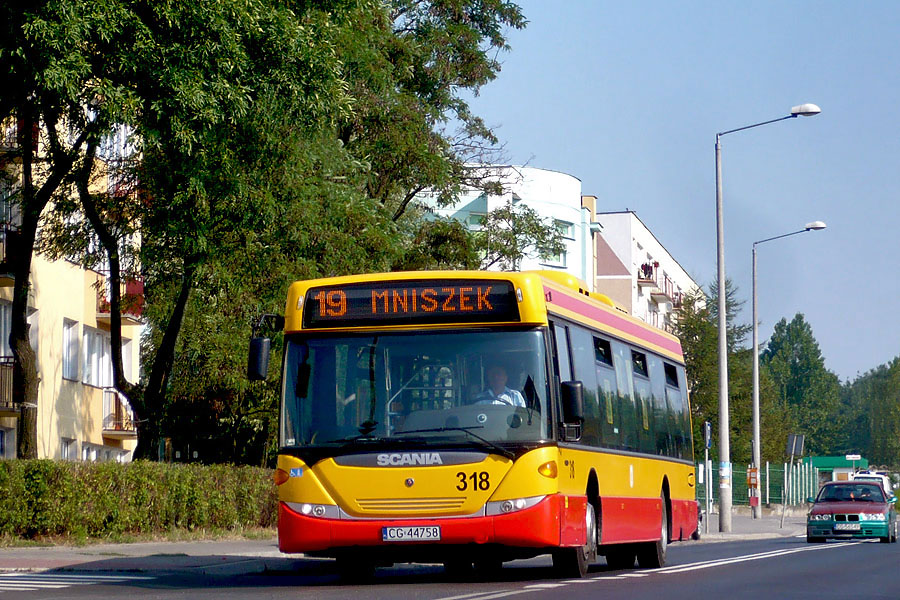 Scania CN270UB 4x2 EB OmniCity bus (#318) in Grudziądz, Poland. Built 2008, MZK Grudziądz operator.